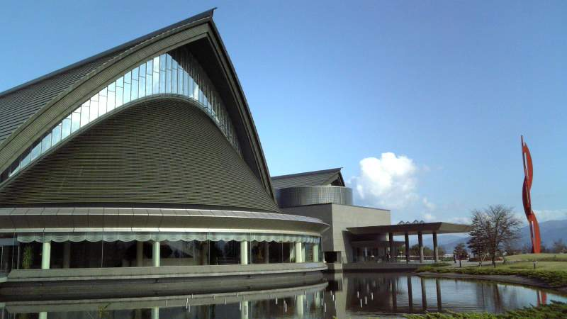 A picture of the Harmony Hall Fukui located in Fukui, Japan.